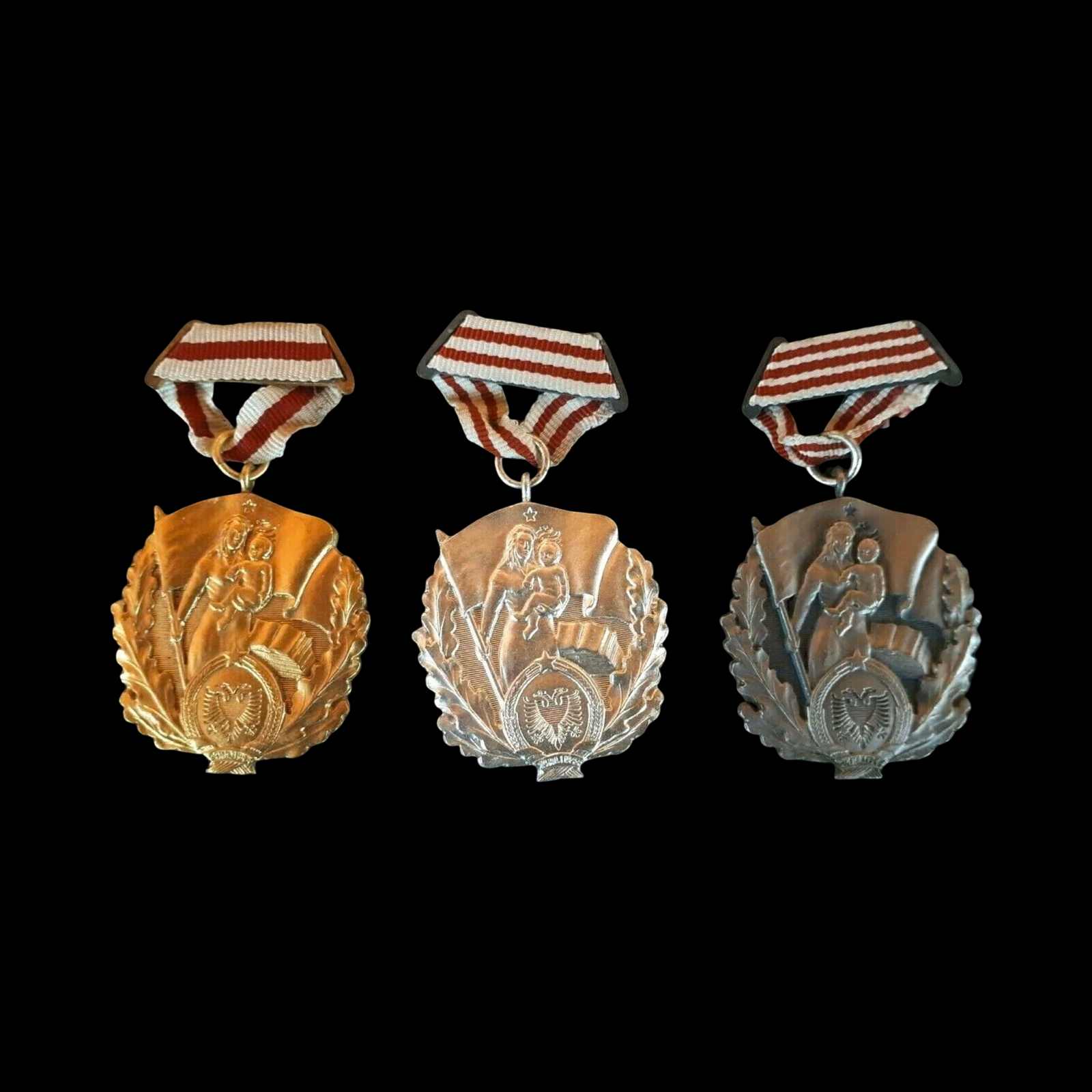 Order "Mother Glory" (Albania)